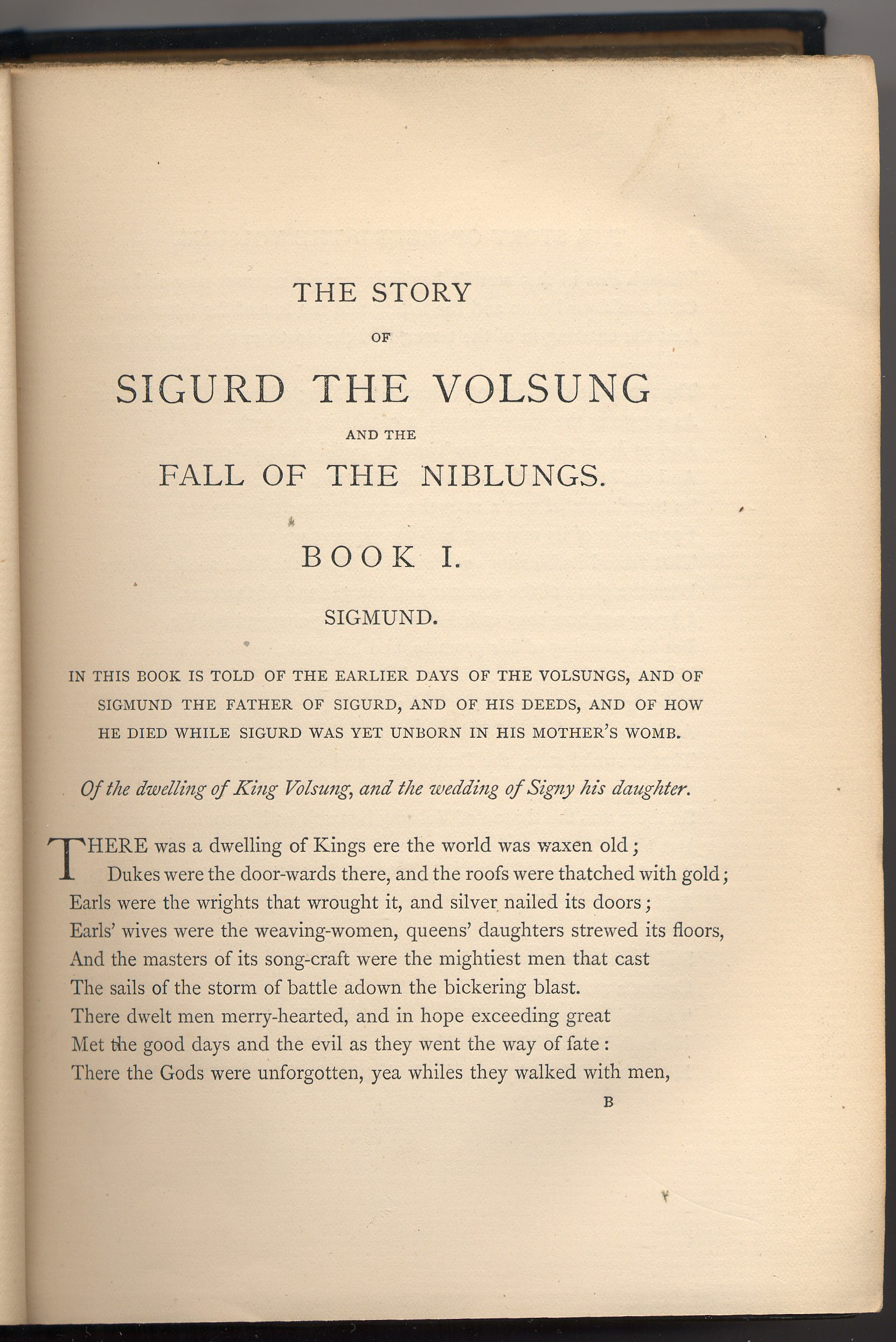 First page of First Edition, dated MDCCCLXXVII (1877), actually 1876 English equivalent of Siegfried epic. "There was a dwelling of Kings ere the world was waxen old ..."